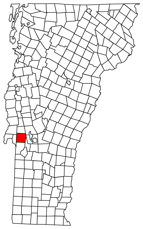 Map of Vermont towns with Castleton highlighted